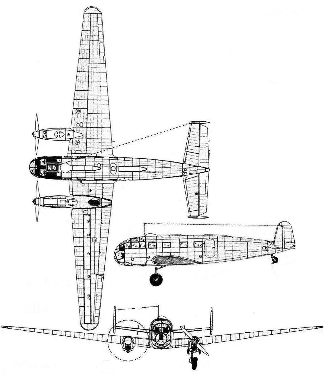 This is a three view drawing of a Siebel Si-204 license-build in post-war Czechoslovakia as Aero C-3 .